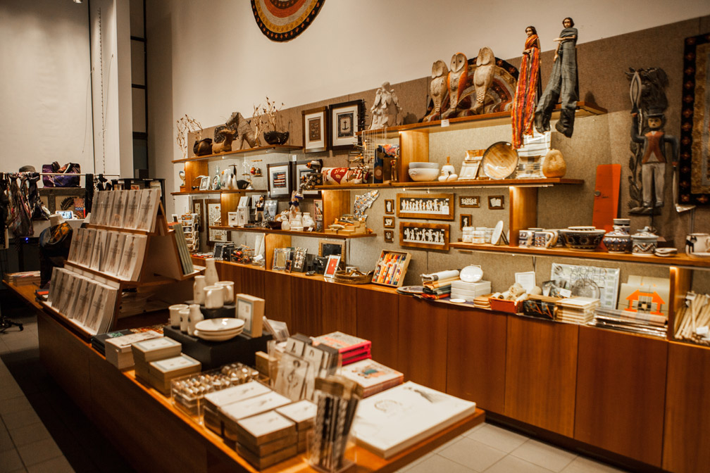 Museum Shop in the American Folk Art Museum — on Lincoln Square, New York City. Photo by Kat Hennessey